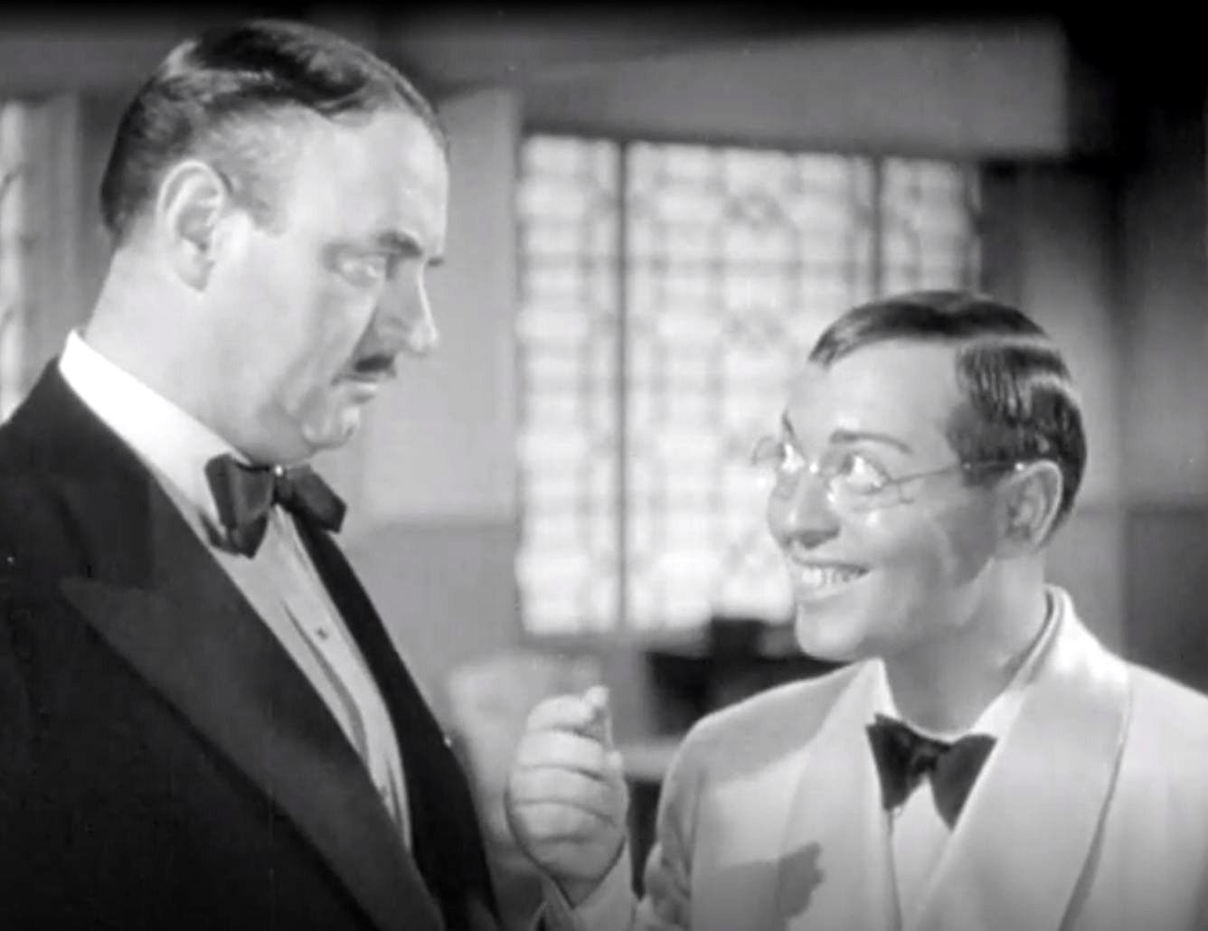 Sig Ruman & Peter Lorre in Think Fast, Mr. Moto - trailer (cropped screenshot)